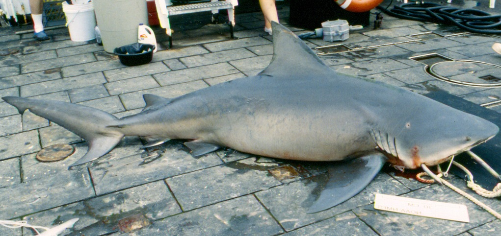 A captured bull shark (Carcharhinus leucas) on the deck of a ship.